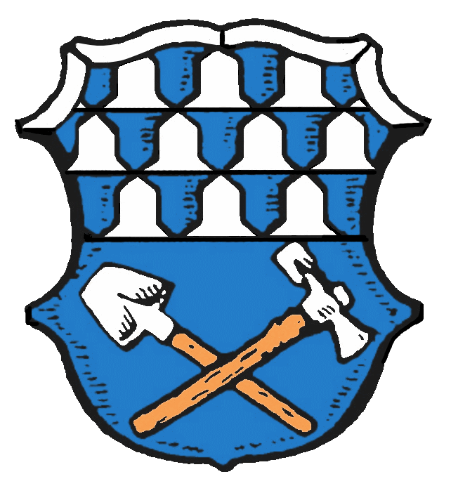 Coat of arms of Rechbergreuthen in the municipality of Winterbach_(Schwaben)